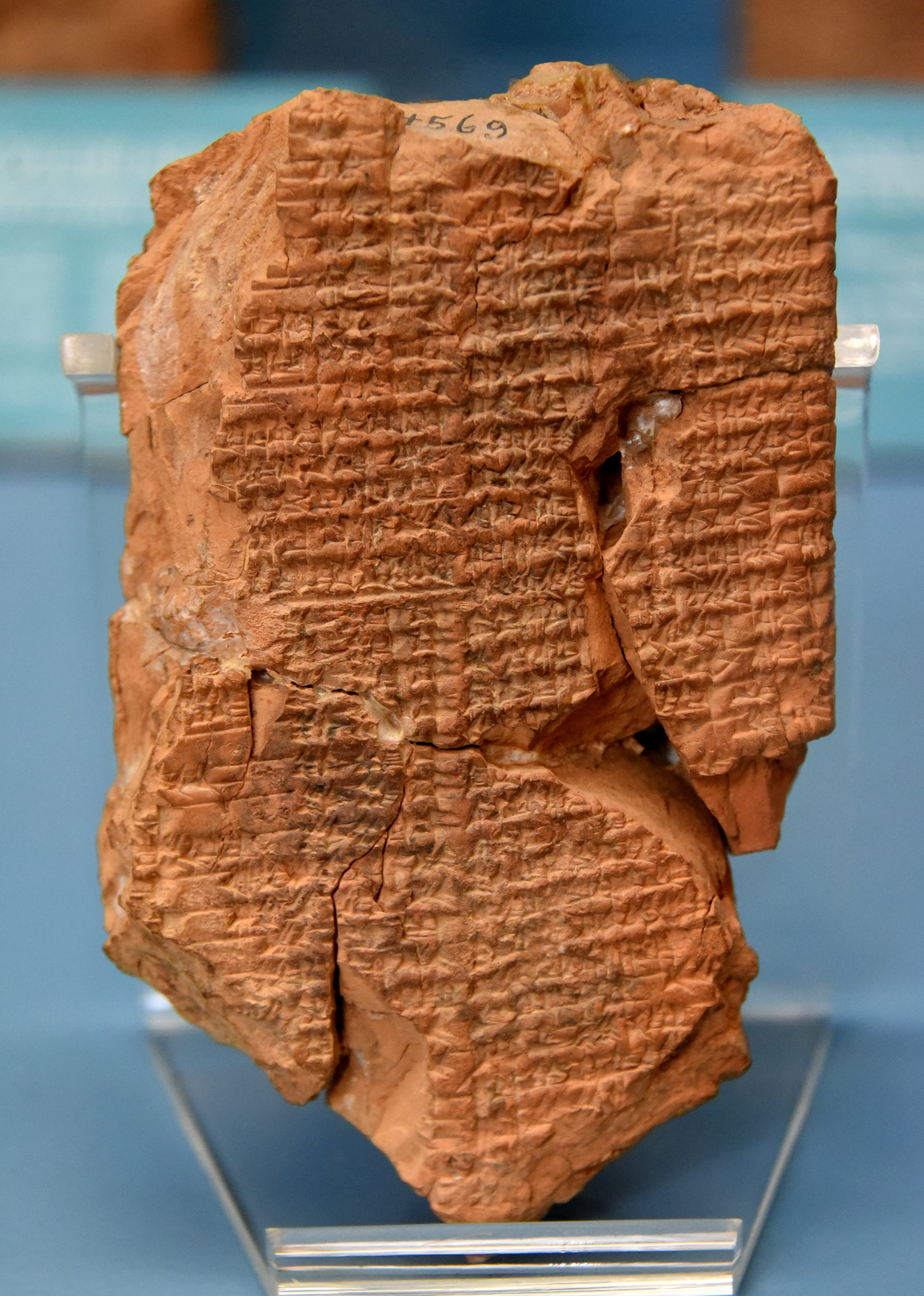 "Inanna prefers the farmer" terracotta tablet. Here, in this myth, Enkimdu (god of farming) and Dumuzi (god of food and vegetation) tried to win the hand of the Sumerian goddess Inanna. Sumerian language. From Nippur (modern Nuffar, Al-Qadisiyah Governorate, Iraq). 1st half of the 2nd millennium BCE. Ancient Orient Museum, Istanbul